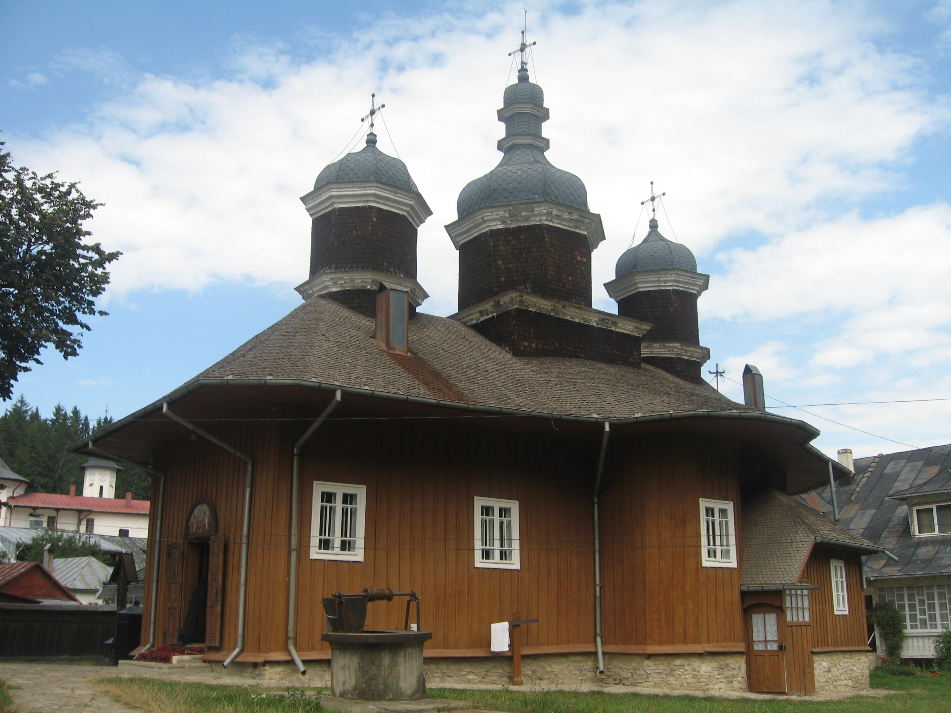 Biserica Adormirea Maicii Domnului din Agapia 07